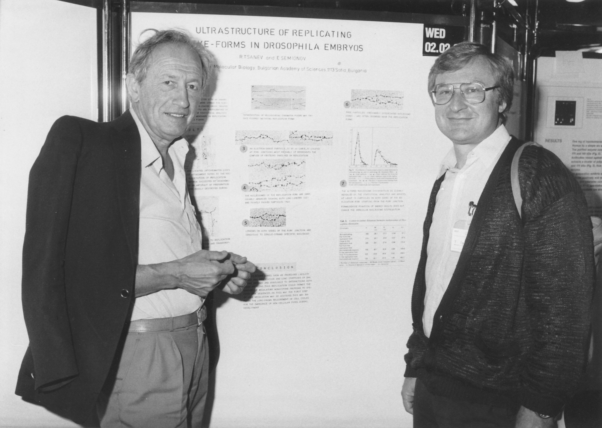 Румен Цанев и Тибор Иго-Кеменес, 17-ти Конгрес на FEBS, Берлин, 28 август 1986